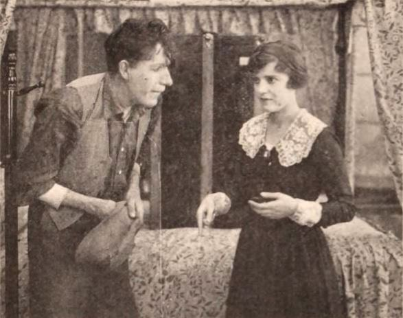 Still from the American comedy film Oh Mary Be Careful (1921) with Madge Kennedy and an unidentified actor, on page 44 of the April 2, 1921 Exhibitors Herald.